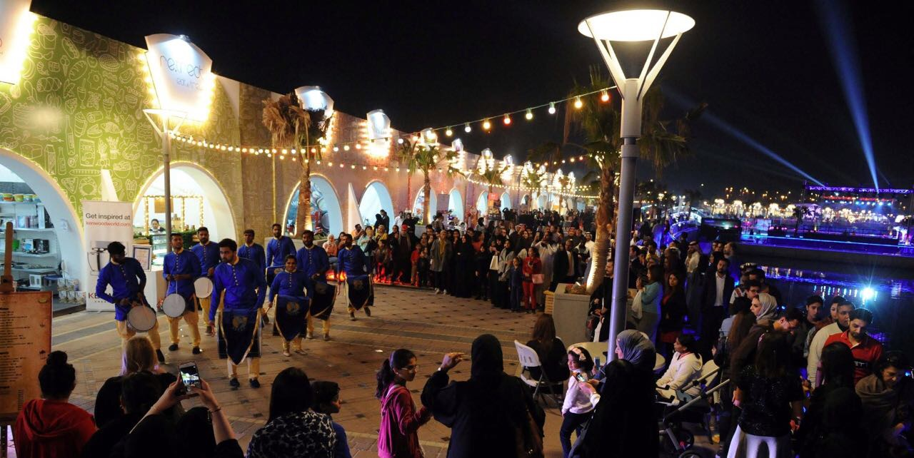 Food Festival event held in Bahrain Bay 2017